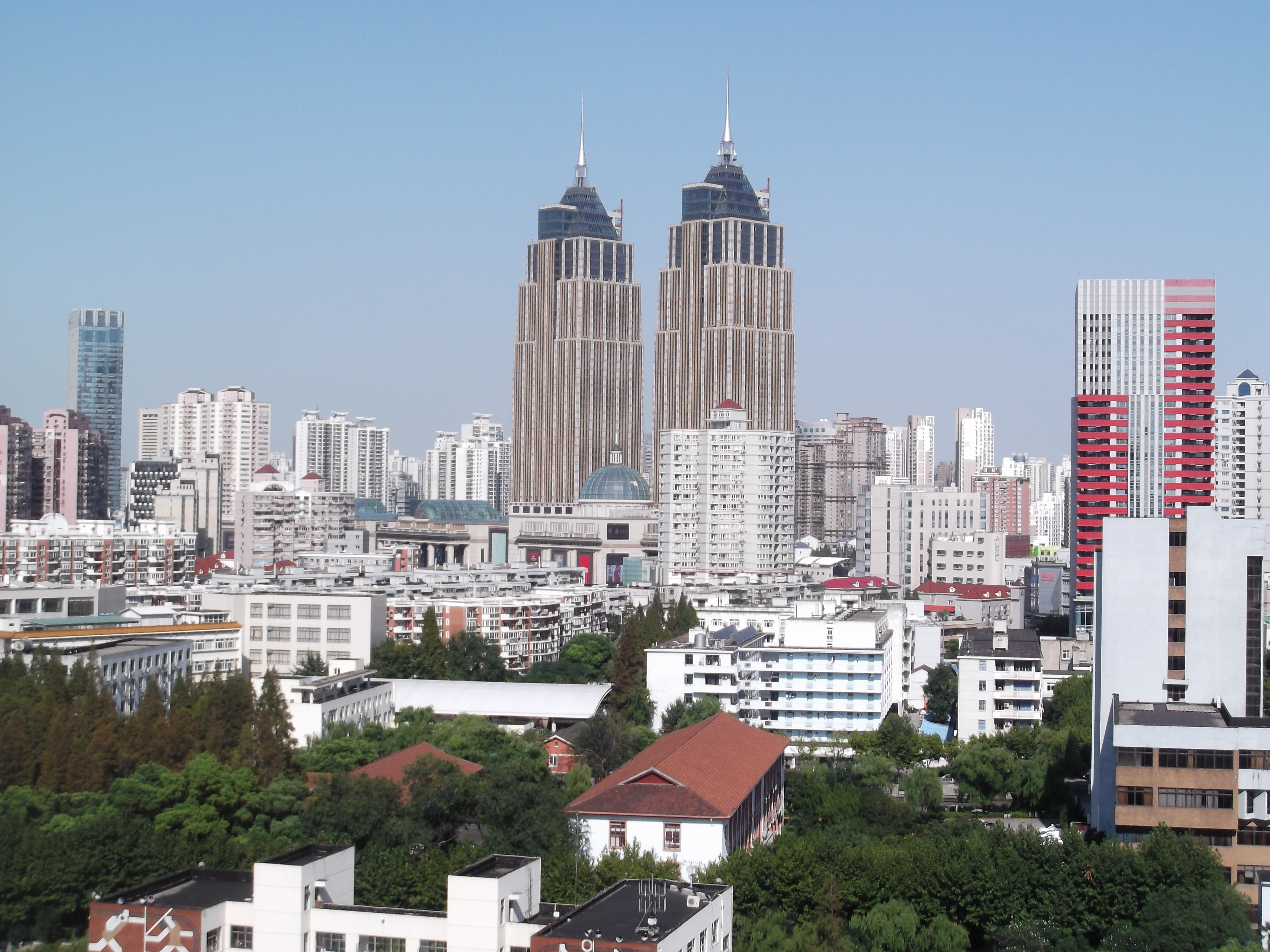 View from East China Normal University hotel across the campus with Global Harbor towers in the background, Shanghai, China.